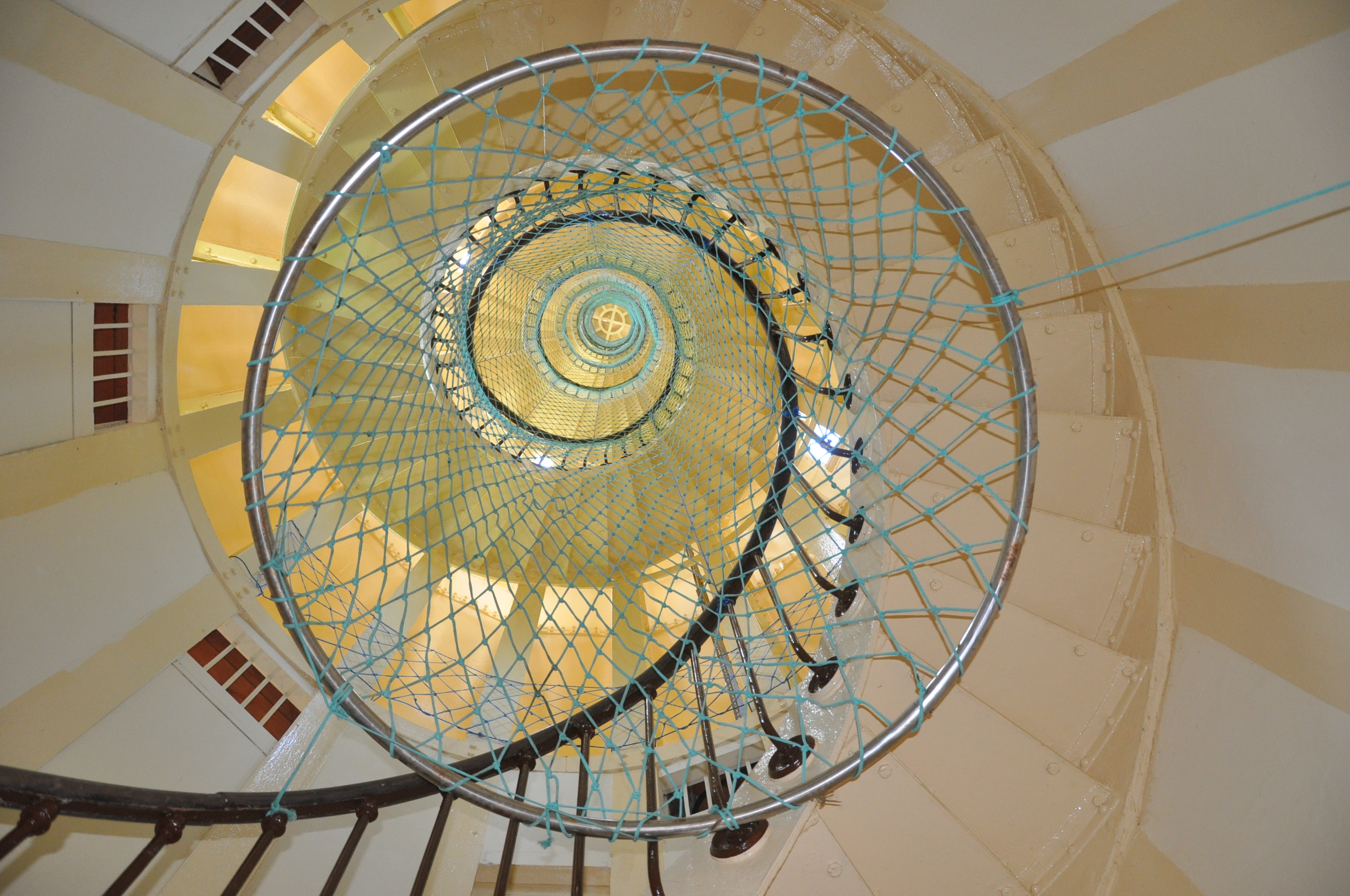 The Amédée lighthouse, or "Le Phare Amédée" is a lighthouse located on Amédée Island, New Caledonia.